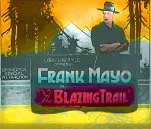 Lobby Card for the 1921 film, "The Blazing Trail"